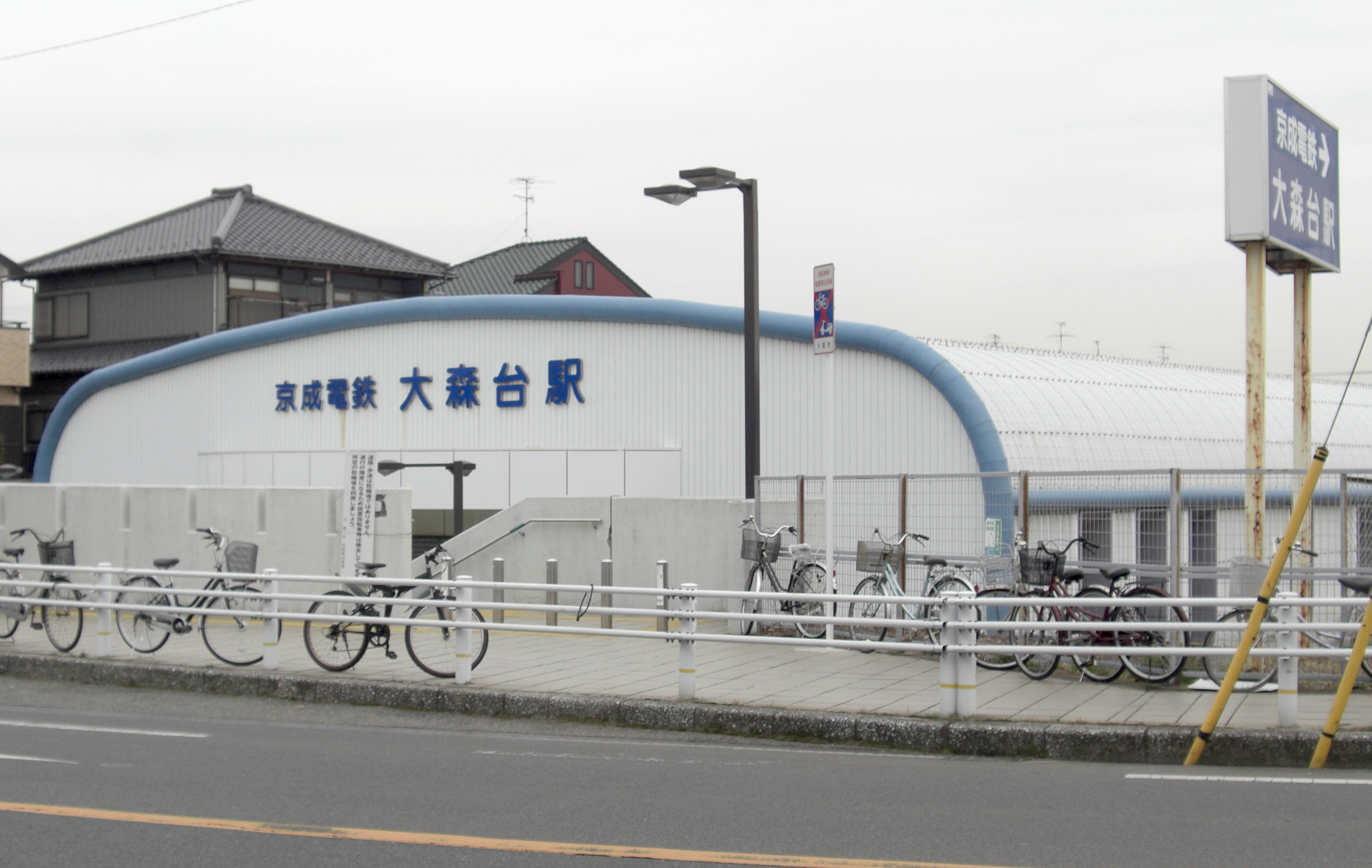 Keisei Chihara Line Ōmoridai Sta.